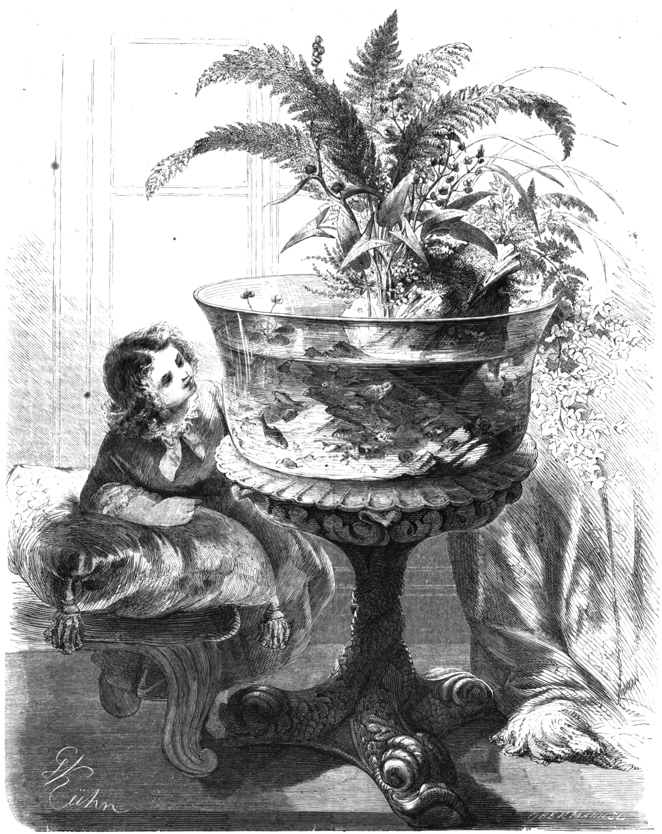 caption: "Der See im Glase."